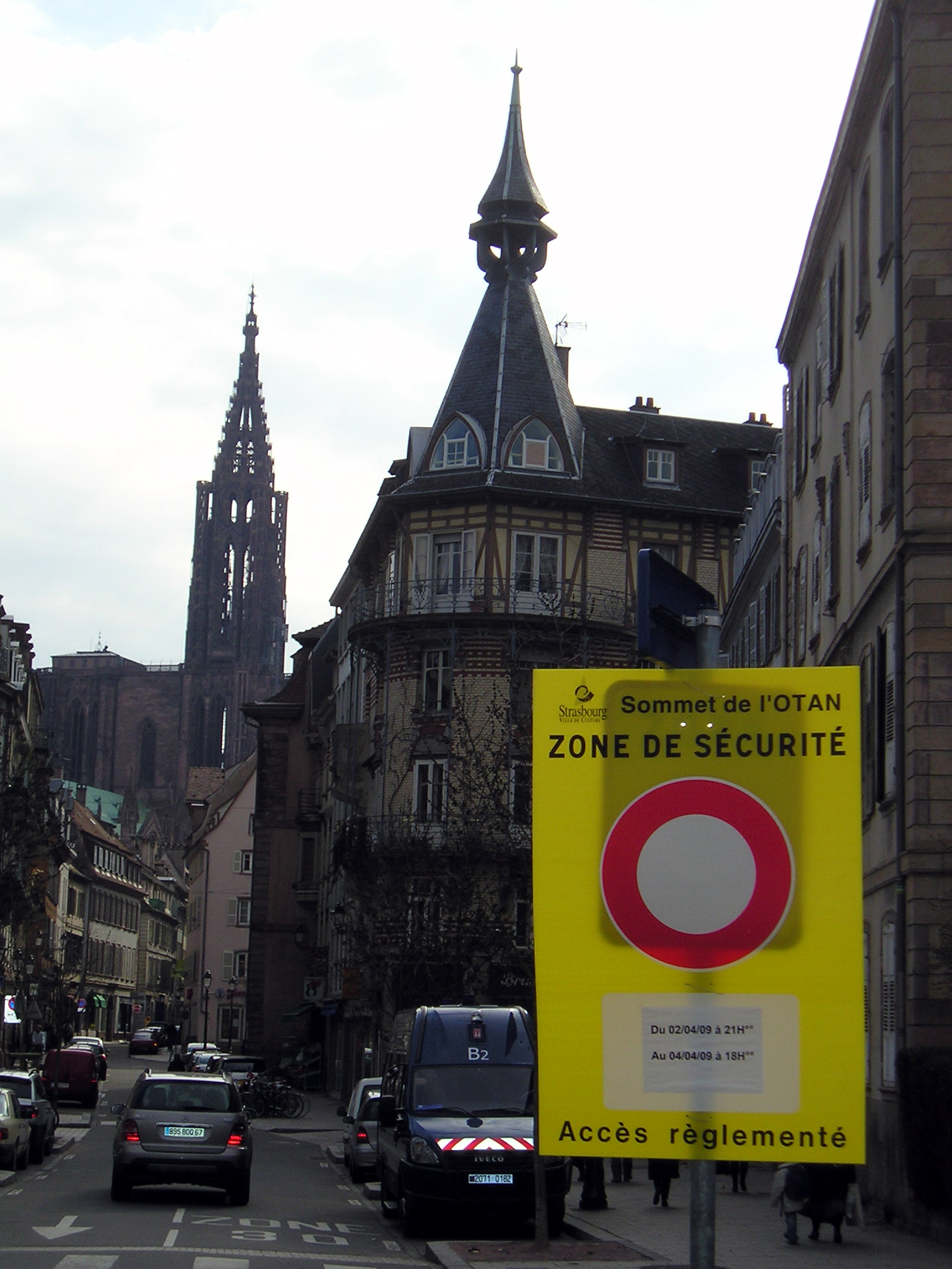 Security zone for the Strasbourg-Kehl 2009 NATO summit